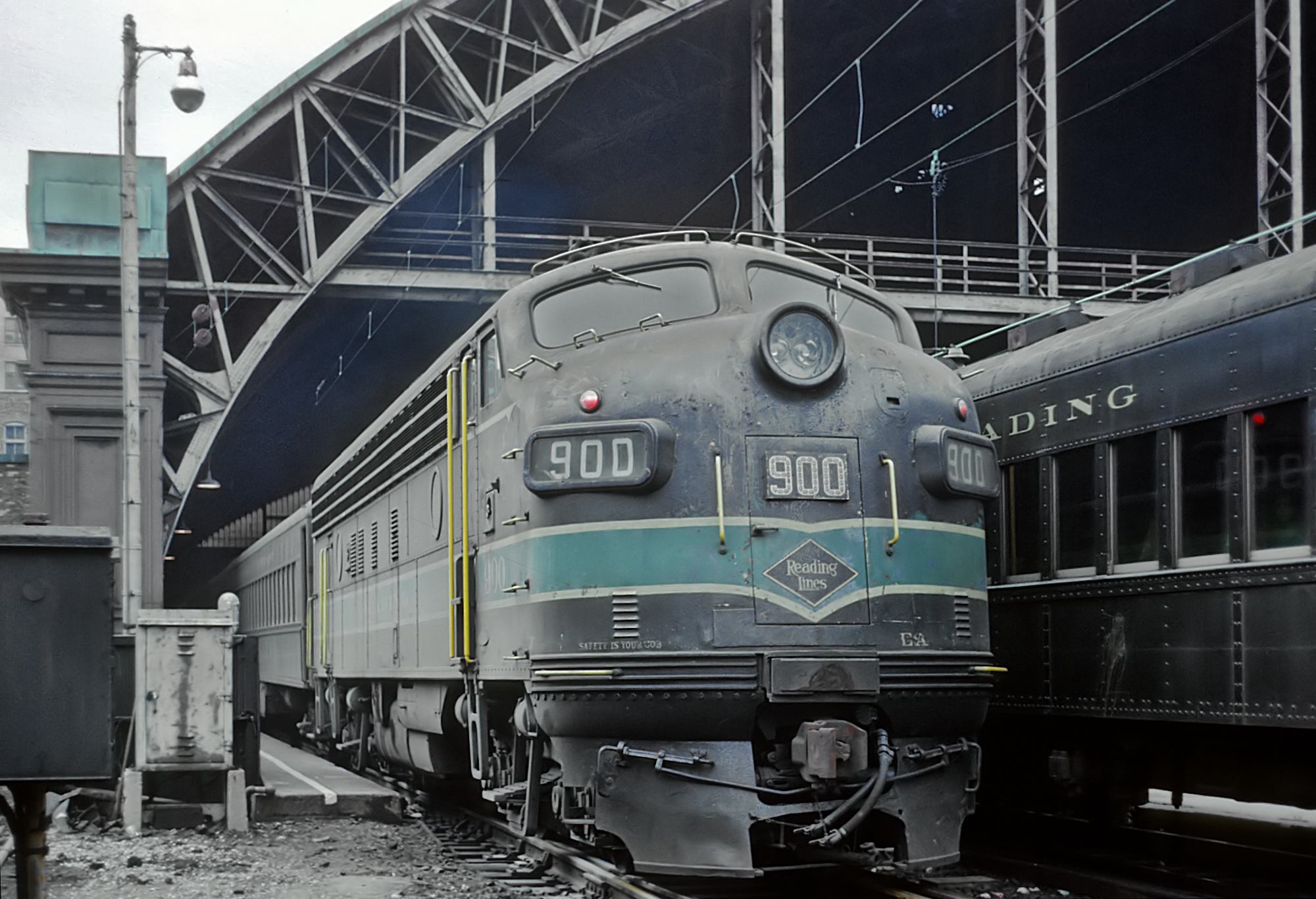 The Crusader at Reading Terminal in November 1968